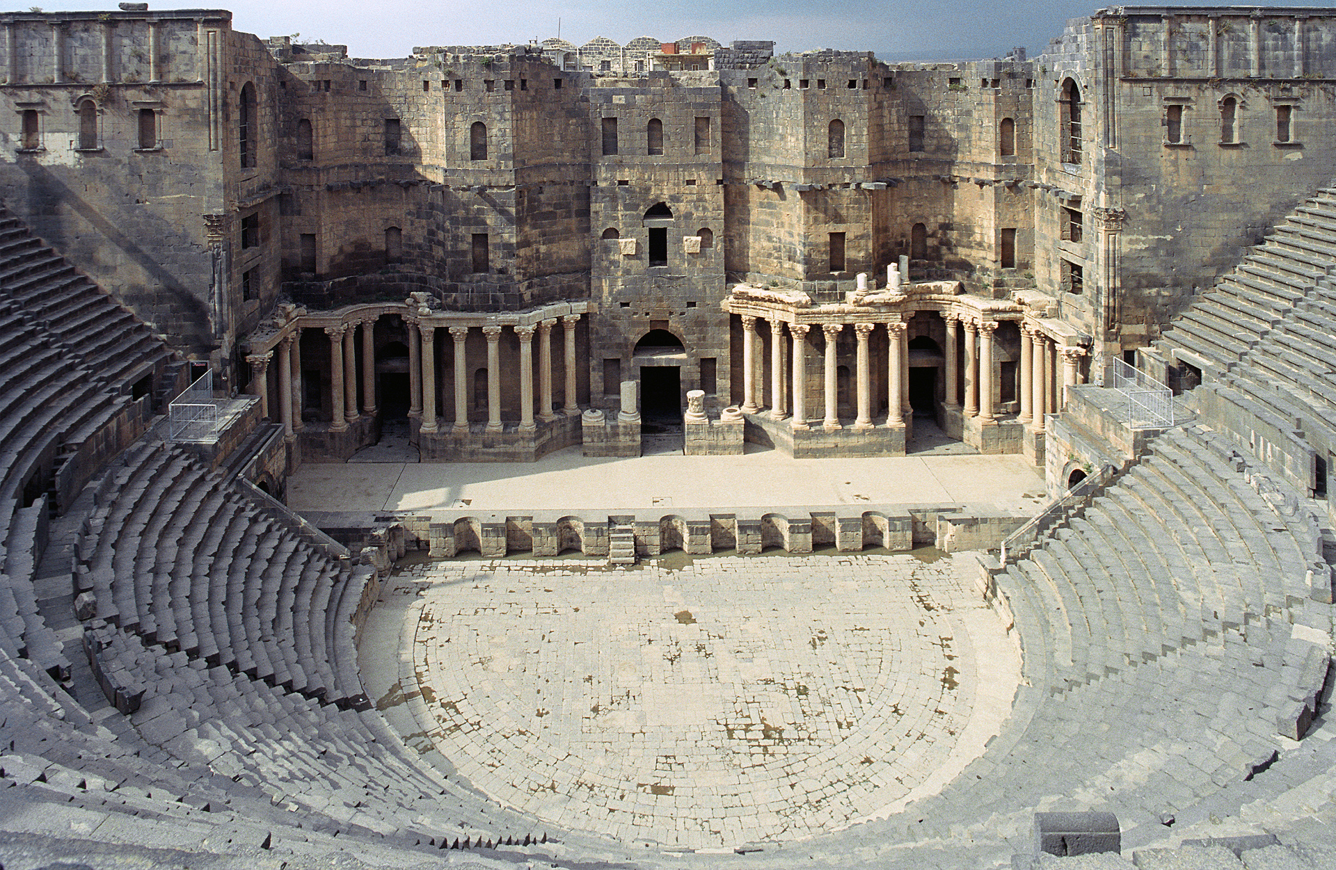 Syria, Roman theater in Bosra